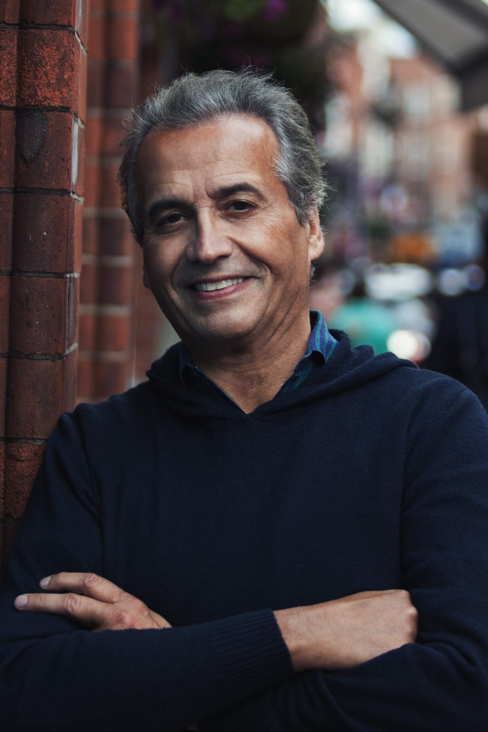 Edmund Battersby in Dublin, Ireland